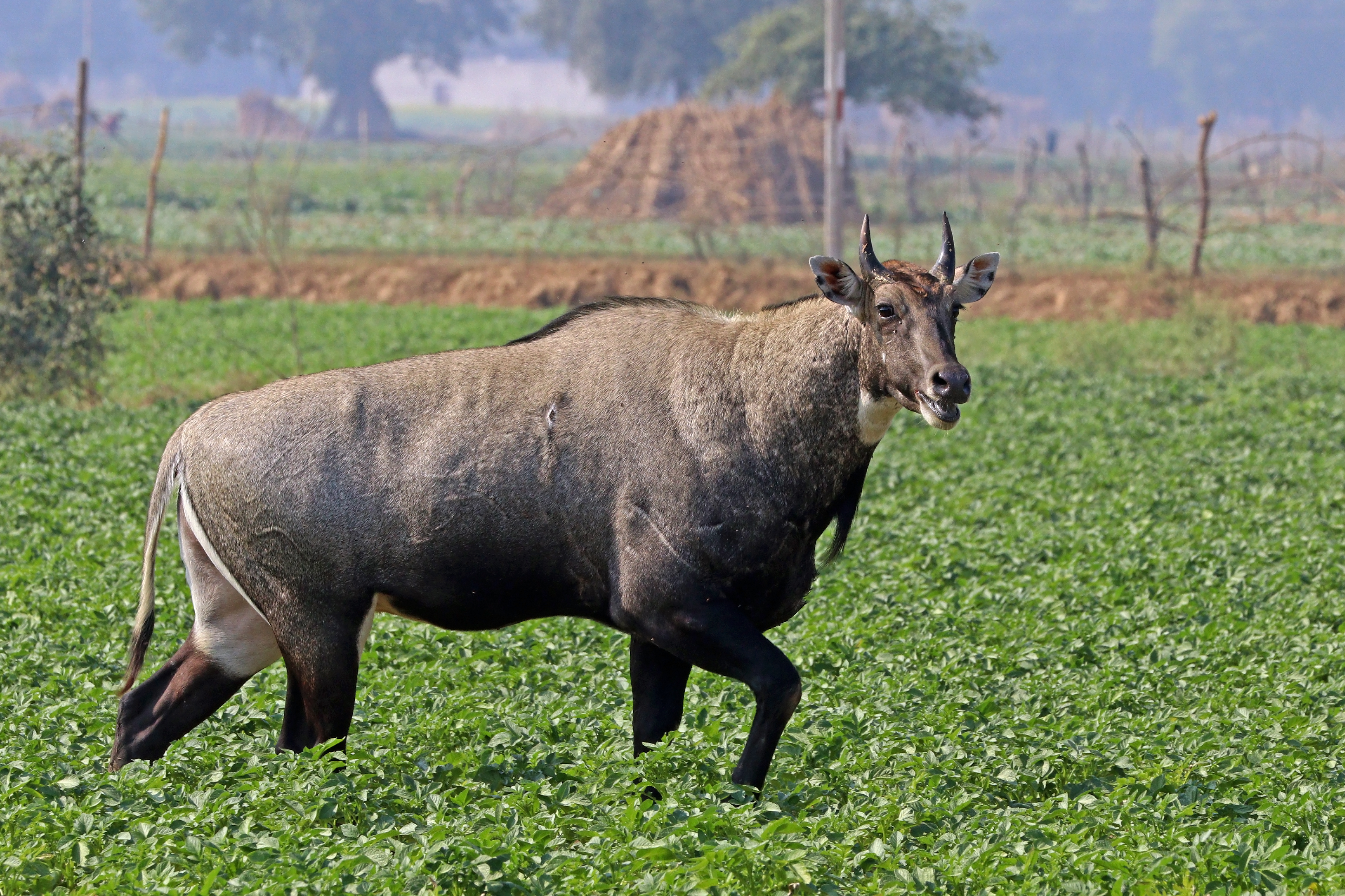 Nilgai (Boselaphus tragocamelus) male, in a potato field, Jamtra, MP, India